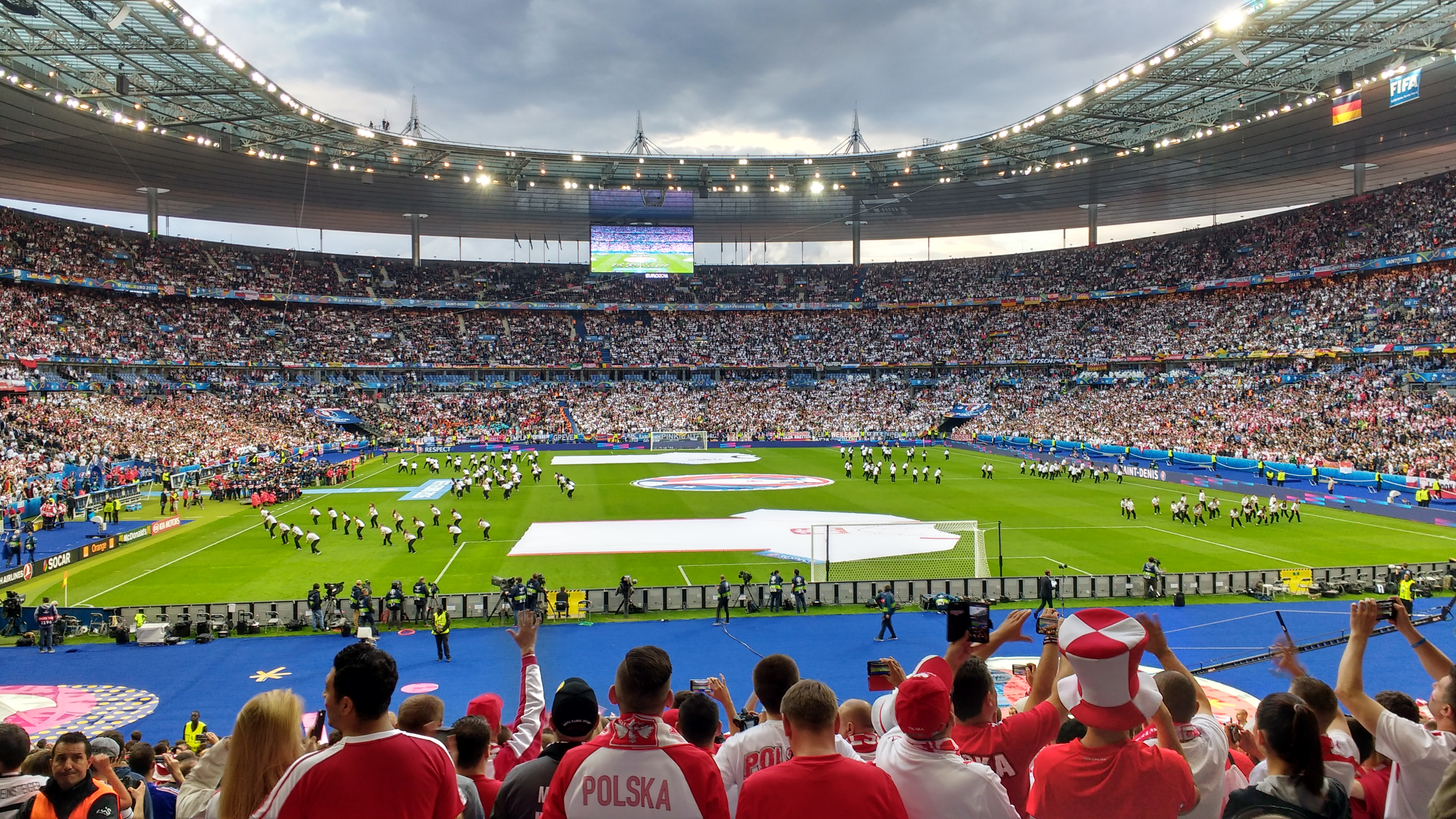 UEFA EURO Group stage. Thursday, June 16, 9:00 PM. Stade de France.